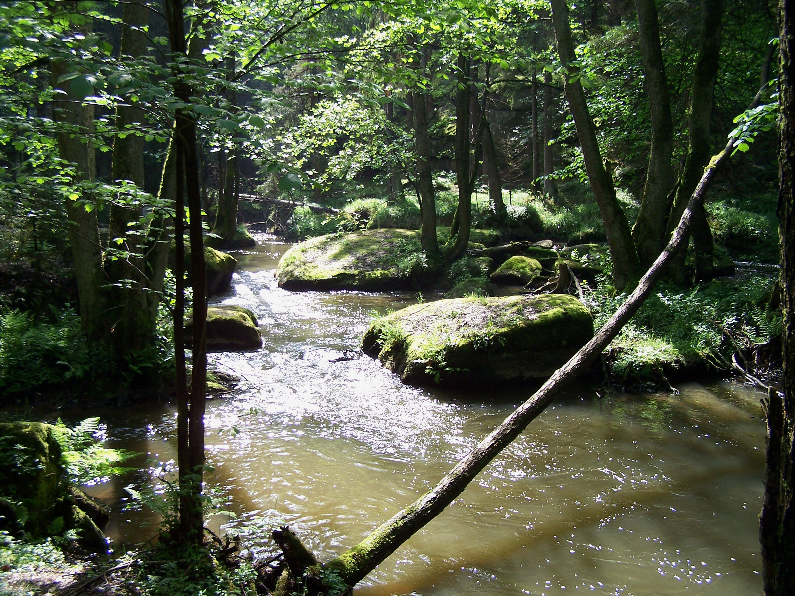 Waldnaab valley in May 2007